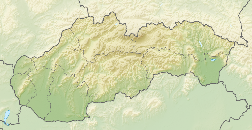 Relief map of Slovakia Equirectangular projection, N/S stretching 150 %. Geographic limits of the map: N: 49.8° N S: 47.6° N W: 16.6° E E: 23.0° E